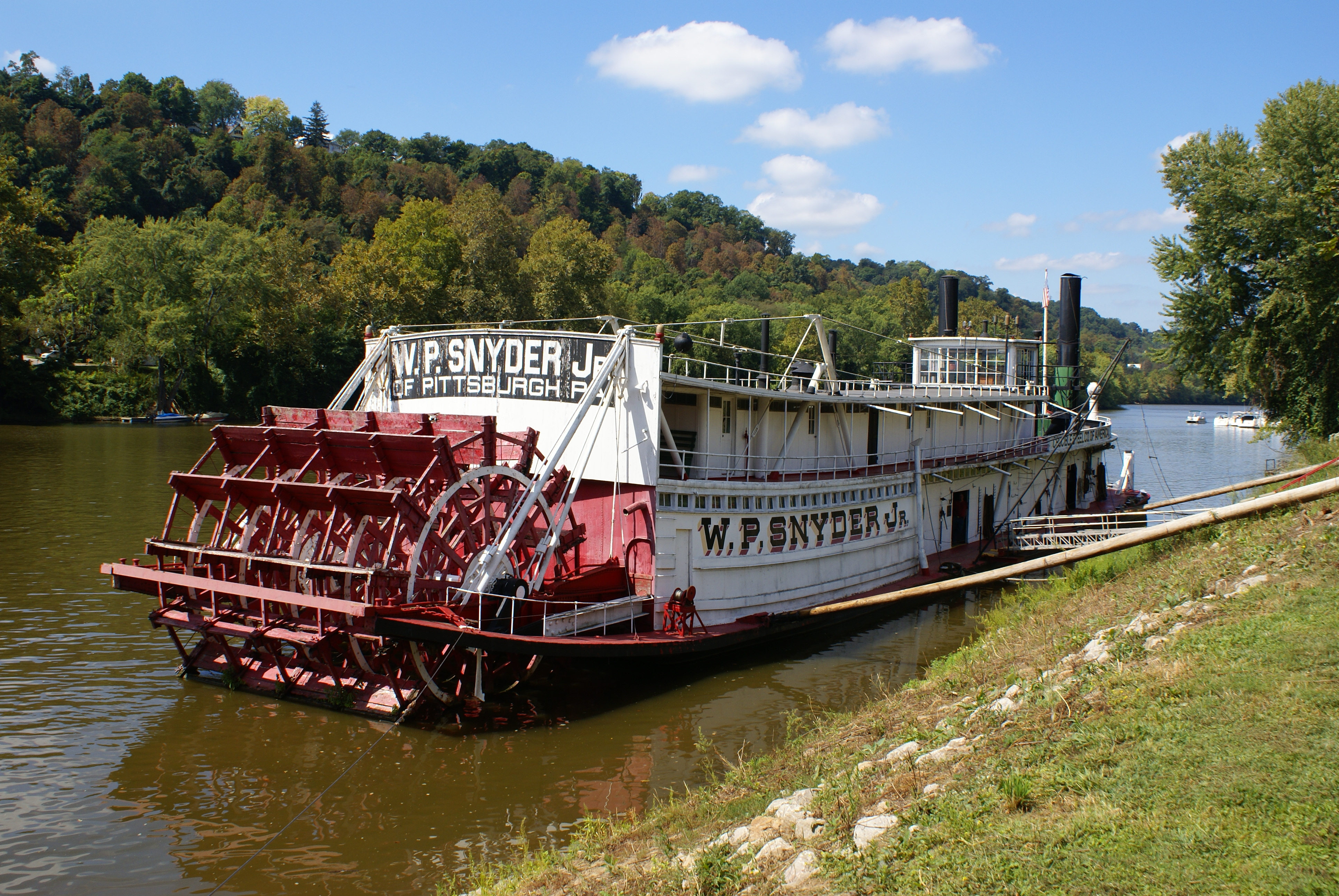 The sternwheel towboat W. P. Snyder, Jr. moored in the Muskingum River at Marietta, Ohio